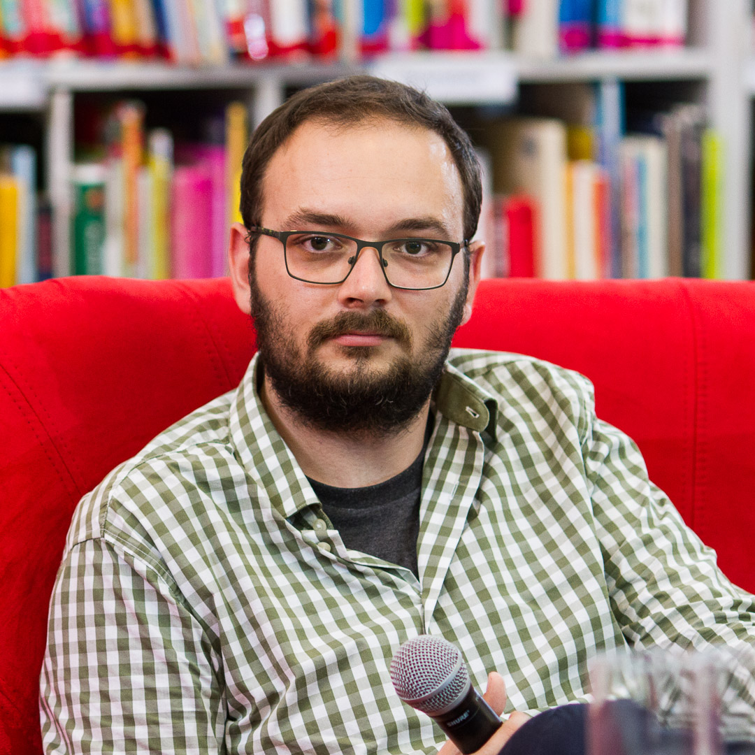 Filip Springer on Authors’ Reading Month 2015, Wrocław, Poland